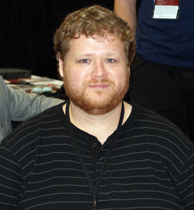 Ethan Nicolle attending the Calgary Comic & Entertainment Expo in BMO Centre, Calgary, Alberta, Canada.